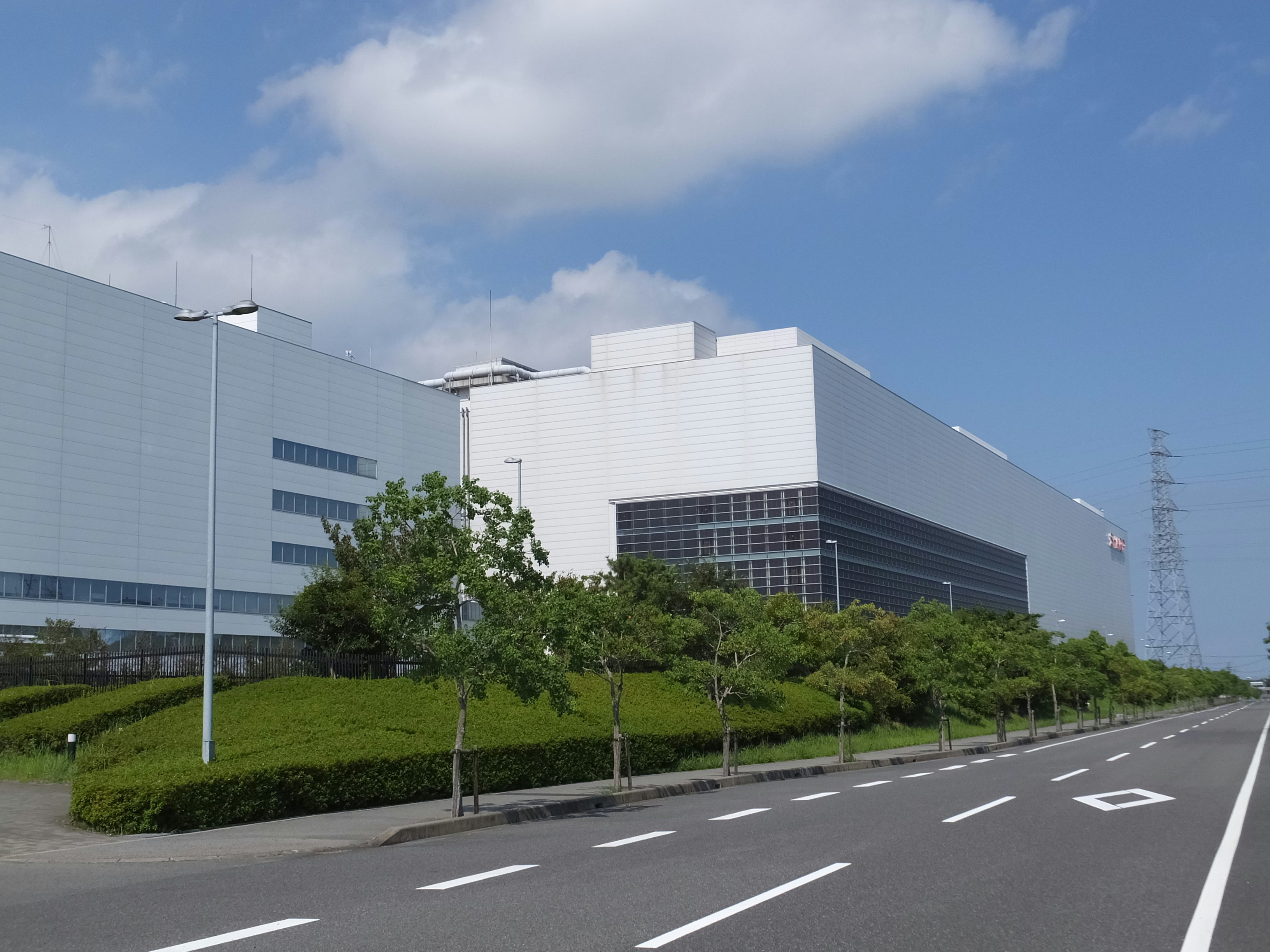 SHARP KAMEYAMA Plnt No2.